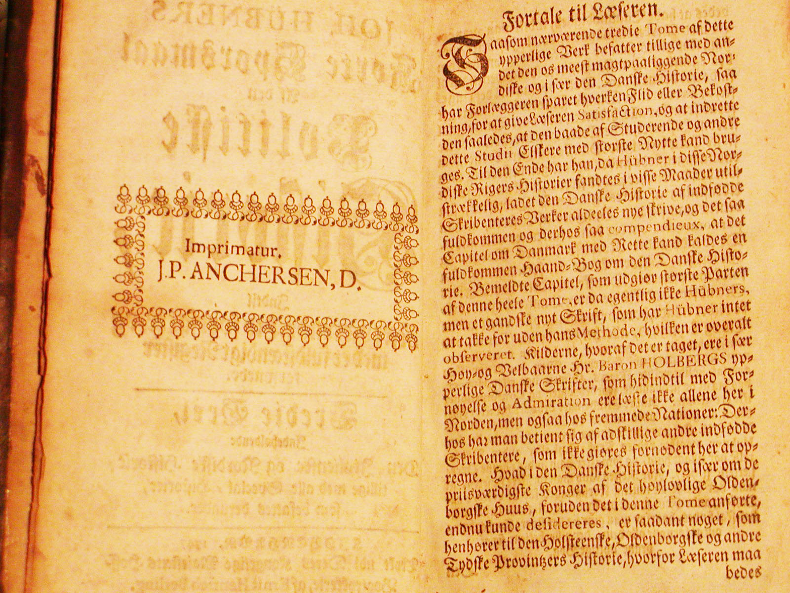 Imprimatur signature in a 18th century Danish book